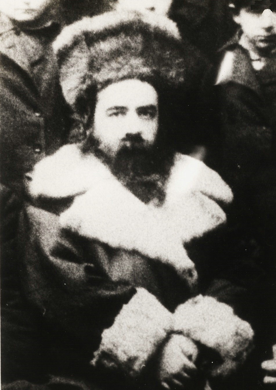 Rabbi Mordechai Rokeach (1902–1949), Rav of Bilgoray, Poland; half-brother of Rabbi Aharon Rokeach, fourth Belzer Rebbe.